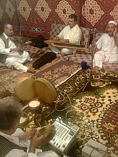 Libyan band of religious music, playing in festivals and religious events and weddings ,specialized in "Malof"